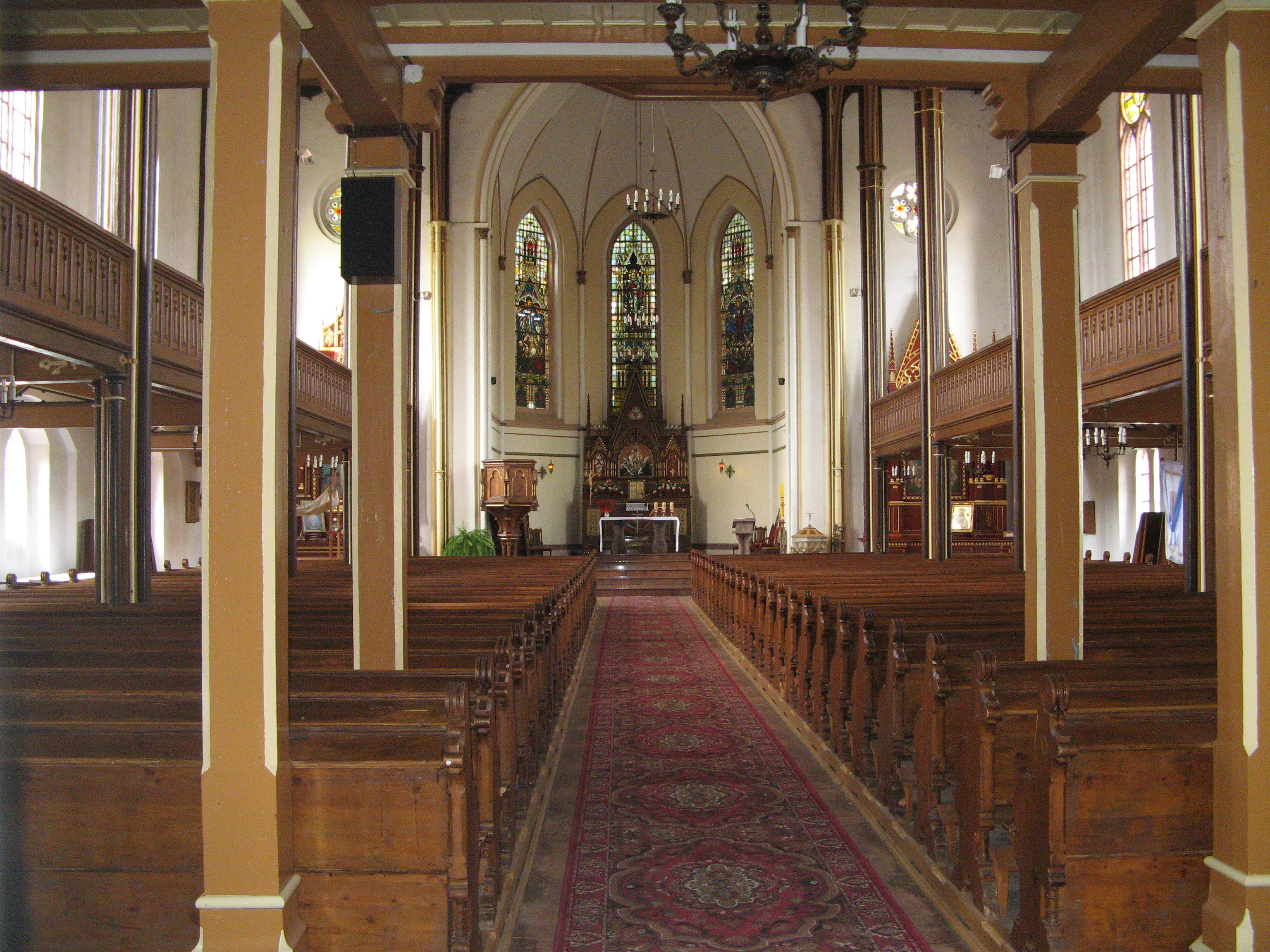 Interior of the Assumption of Mary church in Bobolice (before 1945 german Bublitz)